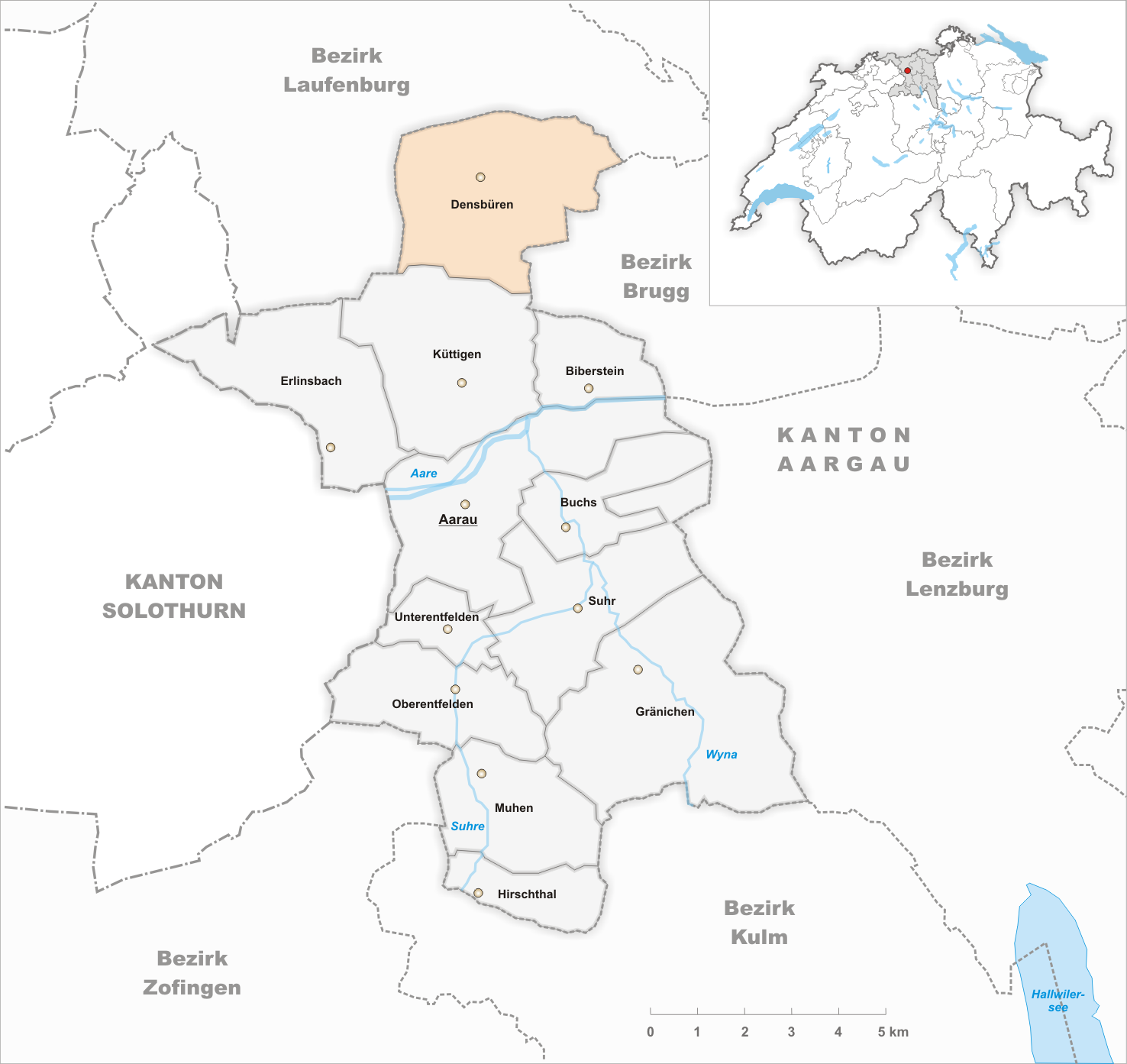 Municipality Densbüren